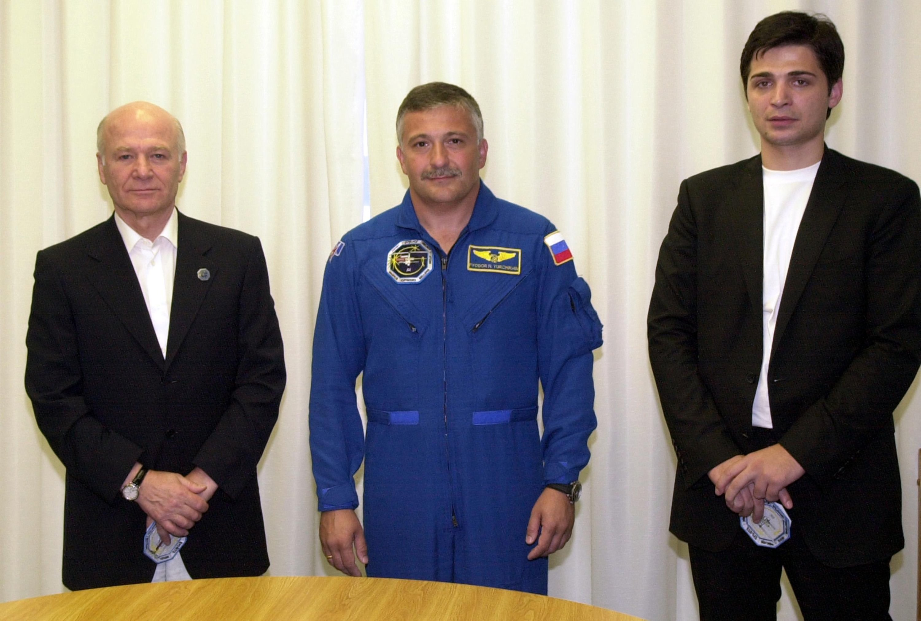 KENNEDY SPACE CENTER, FLA. - In the Operations and Checkout Building, Aslan Abashidze (left), President of the Autonomous Republic of Ajara in Georgia, STS-112 Mission Specialist Fyodor N. Yurchikhin, Ph.D., a cosmonaut with the Russian Space Agency; and Georgi Abashidze, Mayor of Batumi (Yurchikhin's hometown), pose for a portrait. Yurchikhin and the other members of the STS-112 crew are awaiting launch to the International Space Station aboard Space Shuttle Atlantis. The launch has been postponed to no earlier than Monday, Oct. 7, so that the Mission Control Center, located at the Lyndon B. Johnson Space Center in Houston, Texas, can be secured and protected from potential storm impacts from Hurricane Lili.